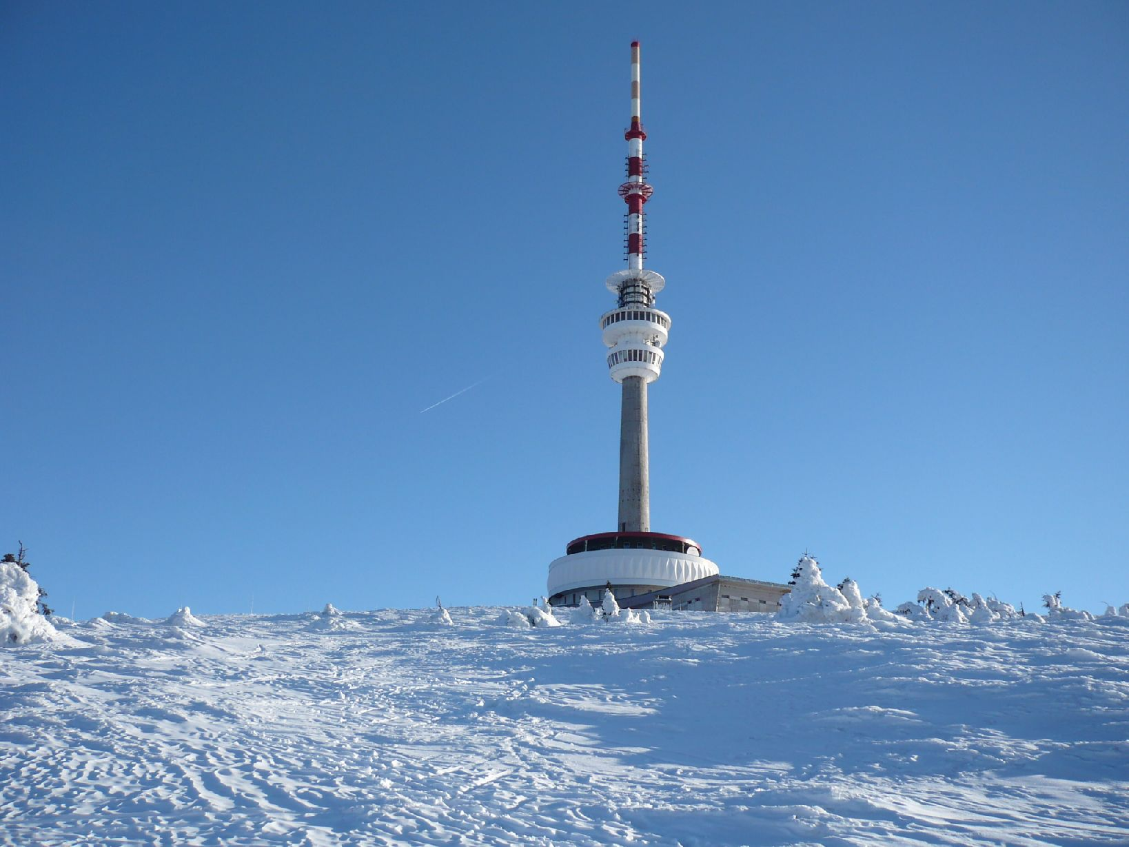 Praded observation and transmitter tower